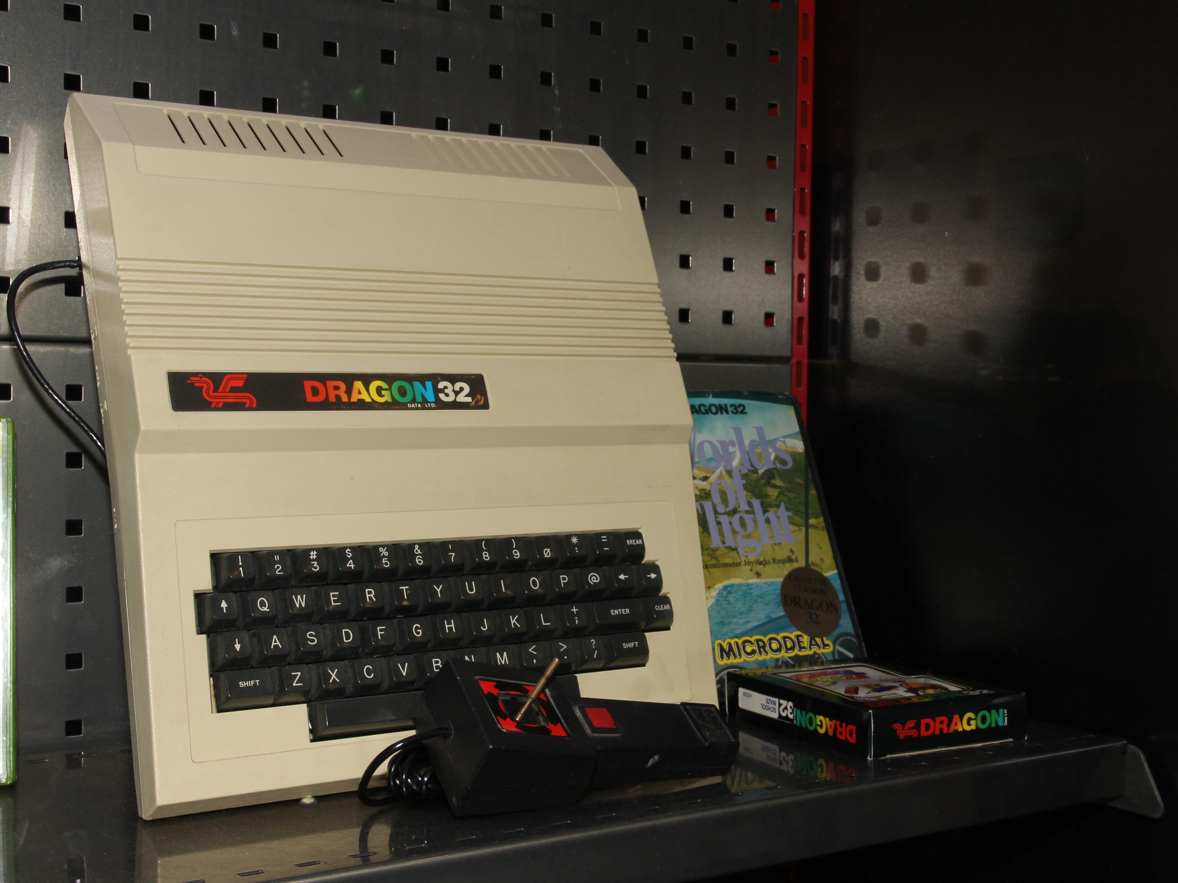 Dragon 32 computer in Helsinki Computer and game console museum.